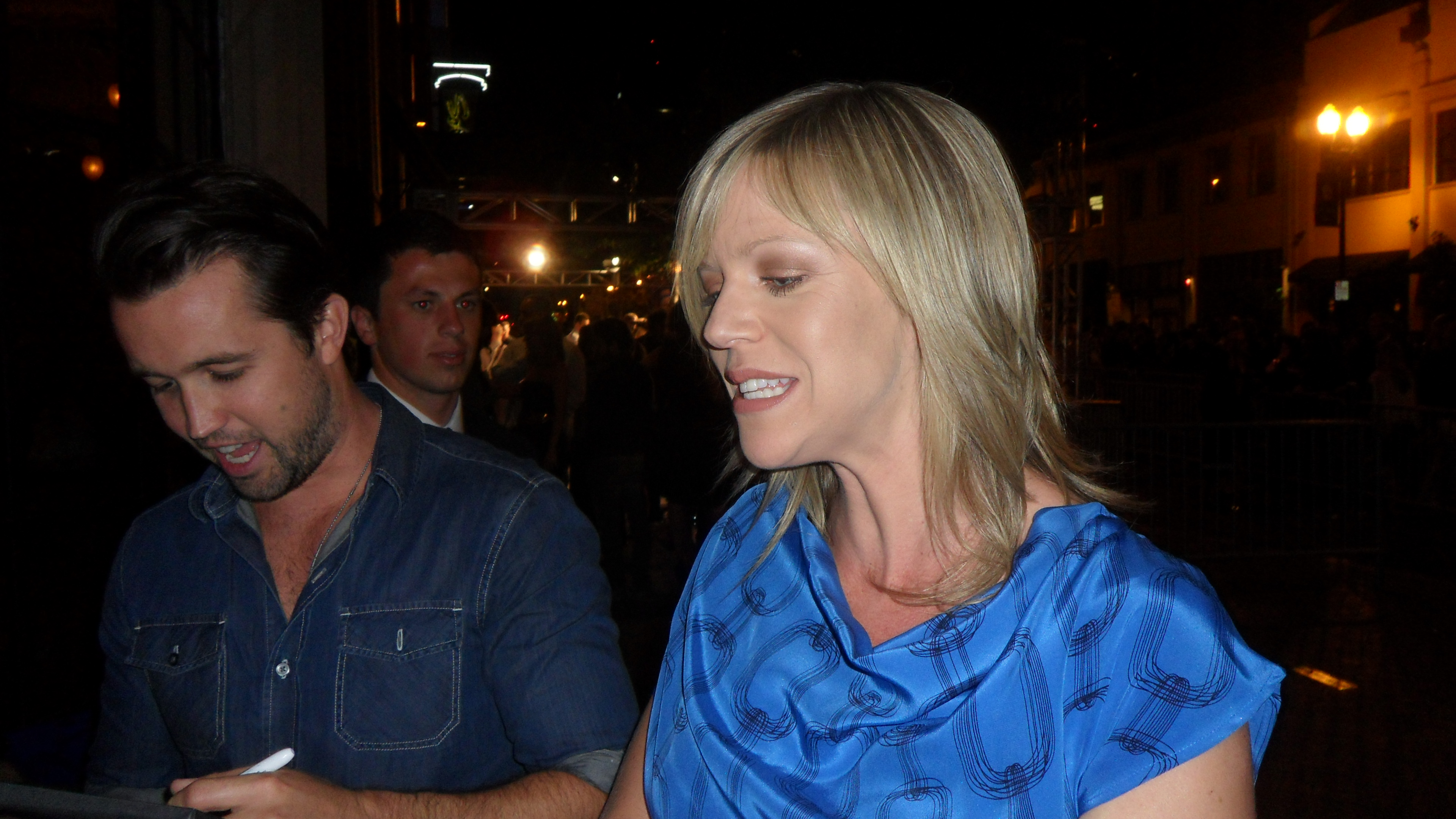 Comic Con 2010